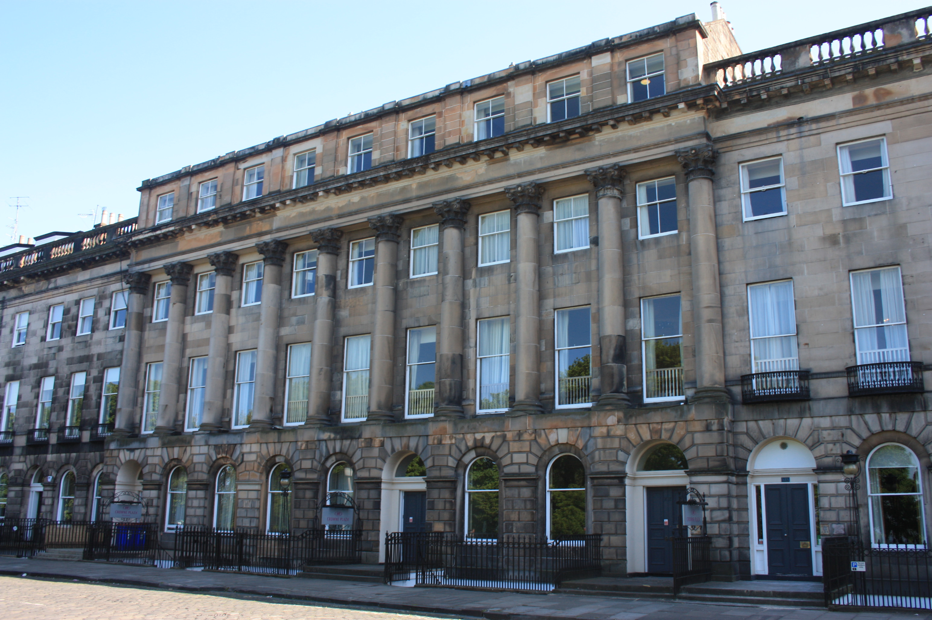 20,21,22 Royal Terrace, Edinburgh